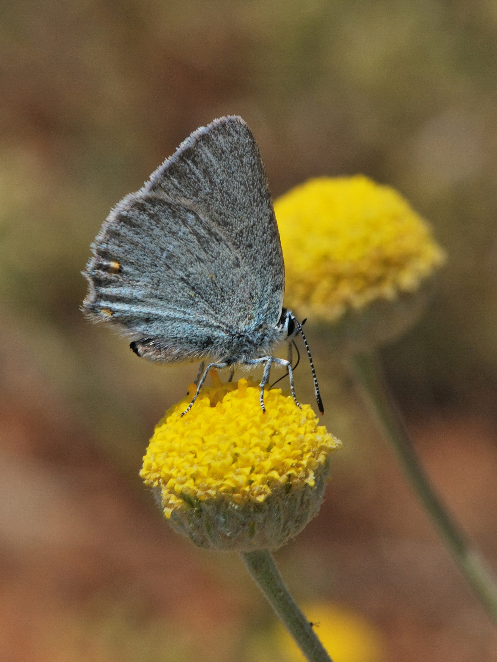 Satyrium myrtale, Mount Hermon, Israel/Syria, July 9, 2011.